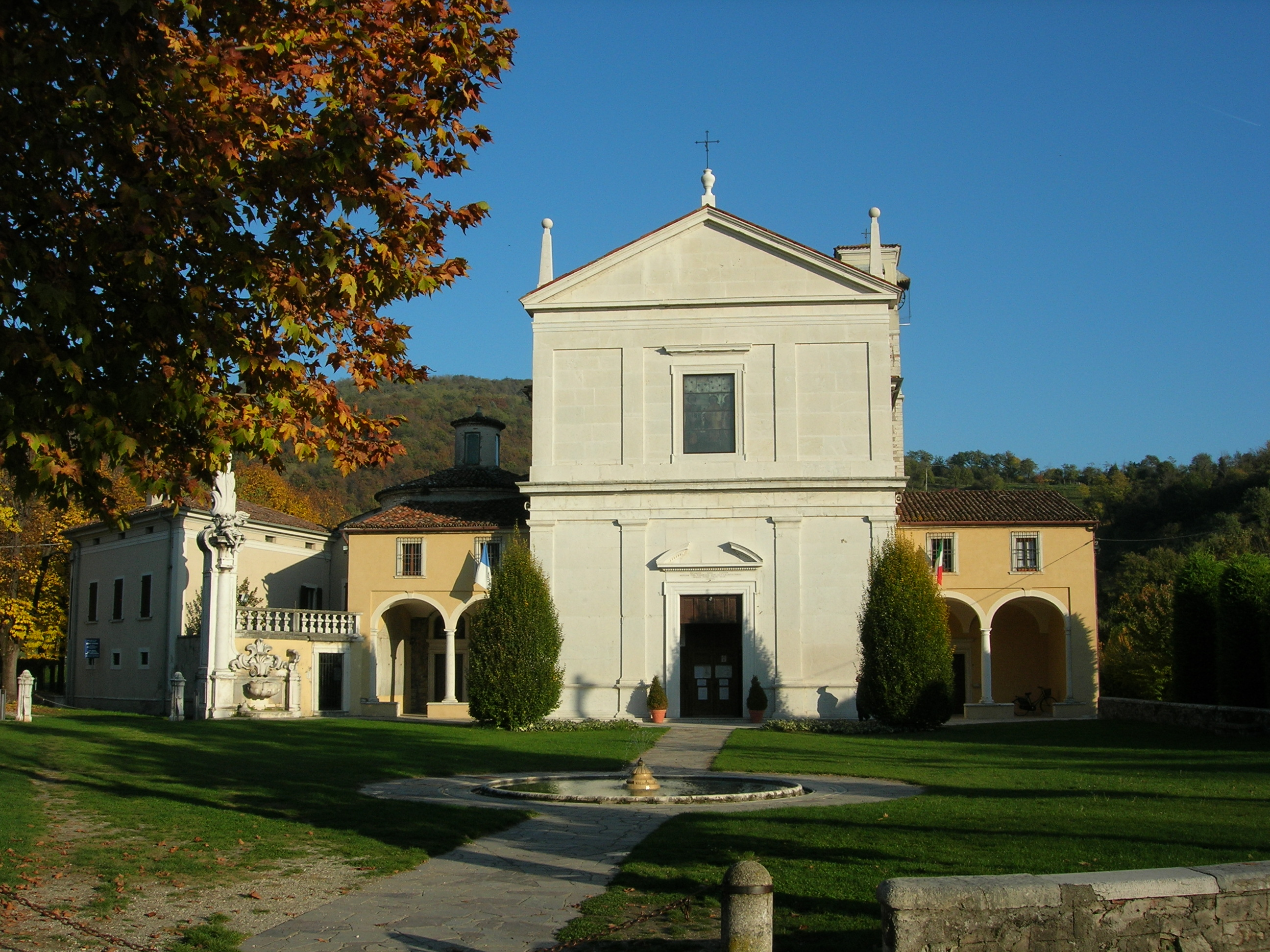 Santuario della Madonna di Valverde (Rezzato)